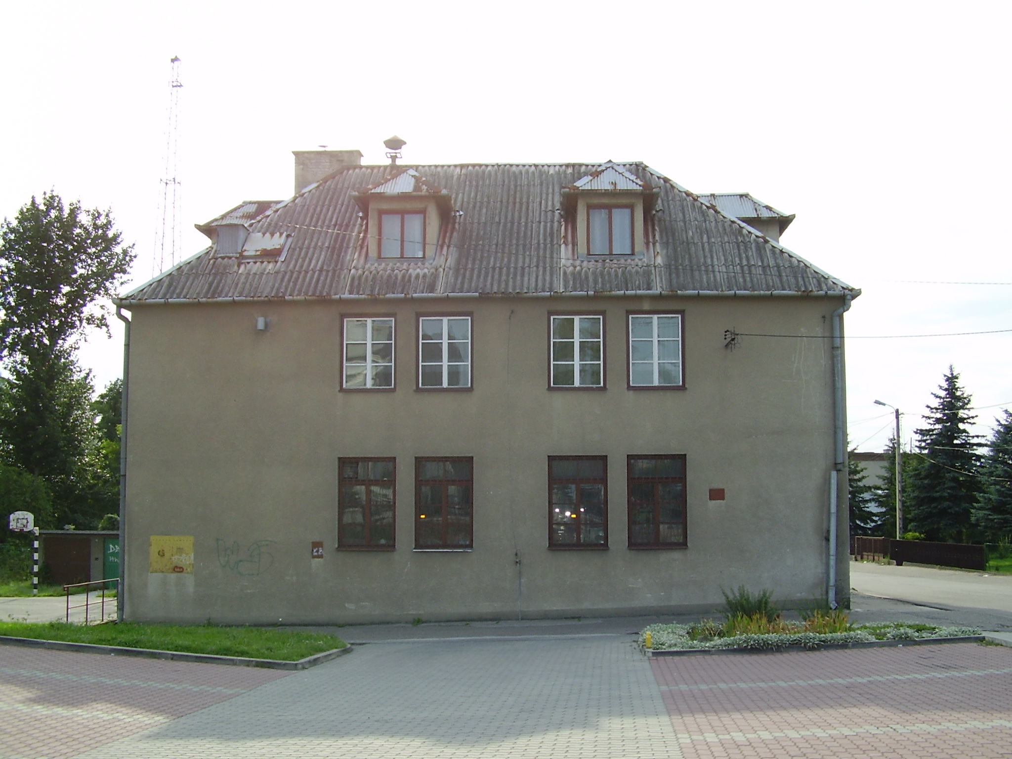 fire station of Voluntary Fire Brigade in Rzezawa (Poland)